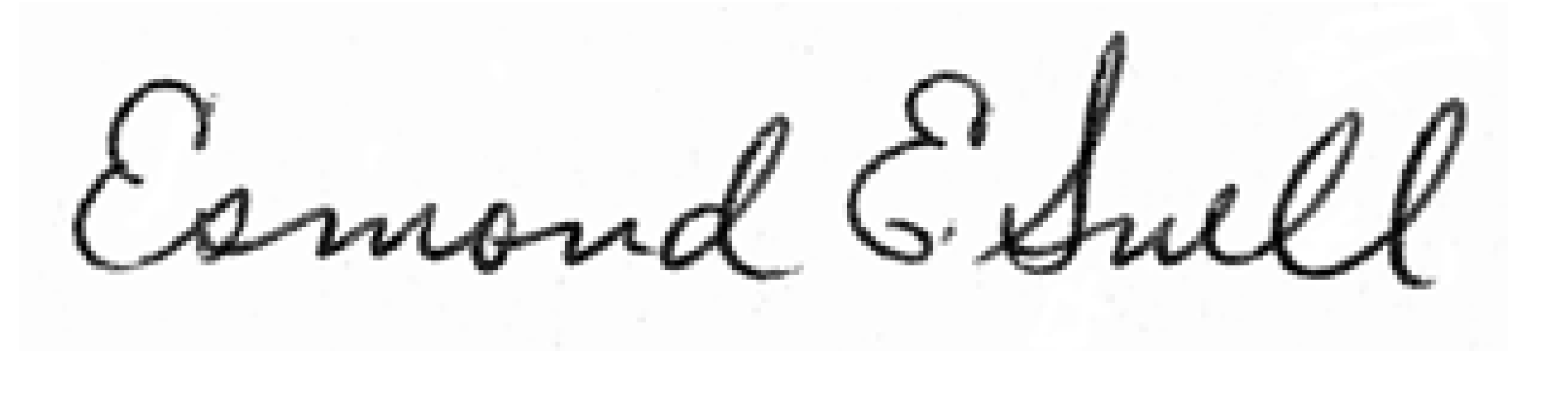 Signature of Esmond Emerson Snell